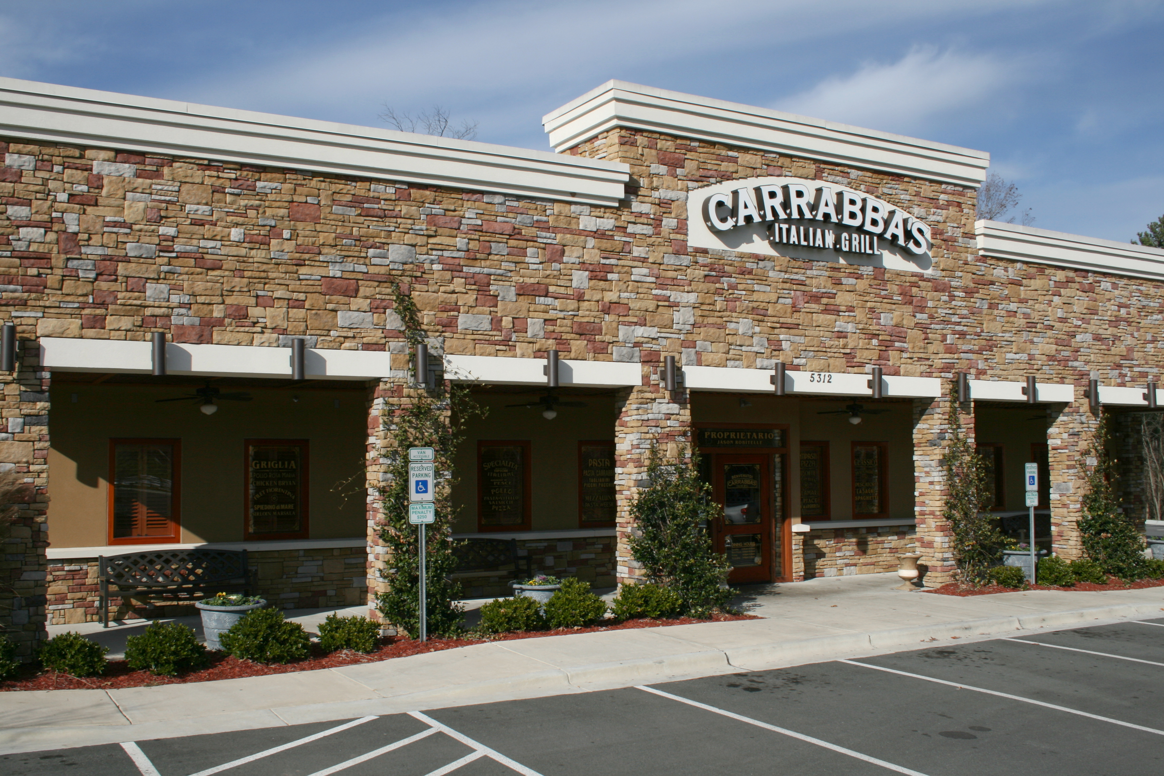 Carrabba's Italian Grill at the Indigo Corners plaza in Durham, North Carolina.